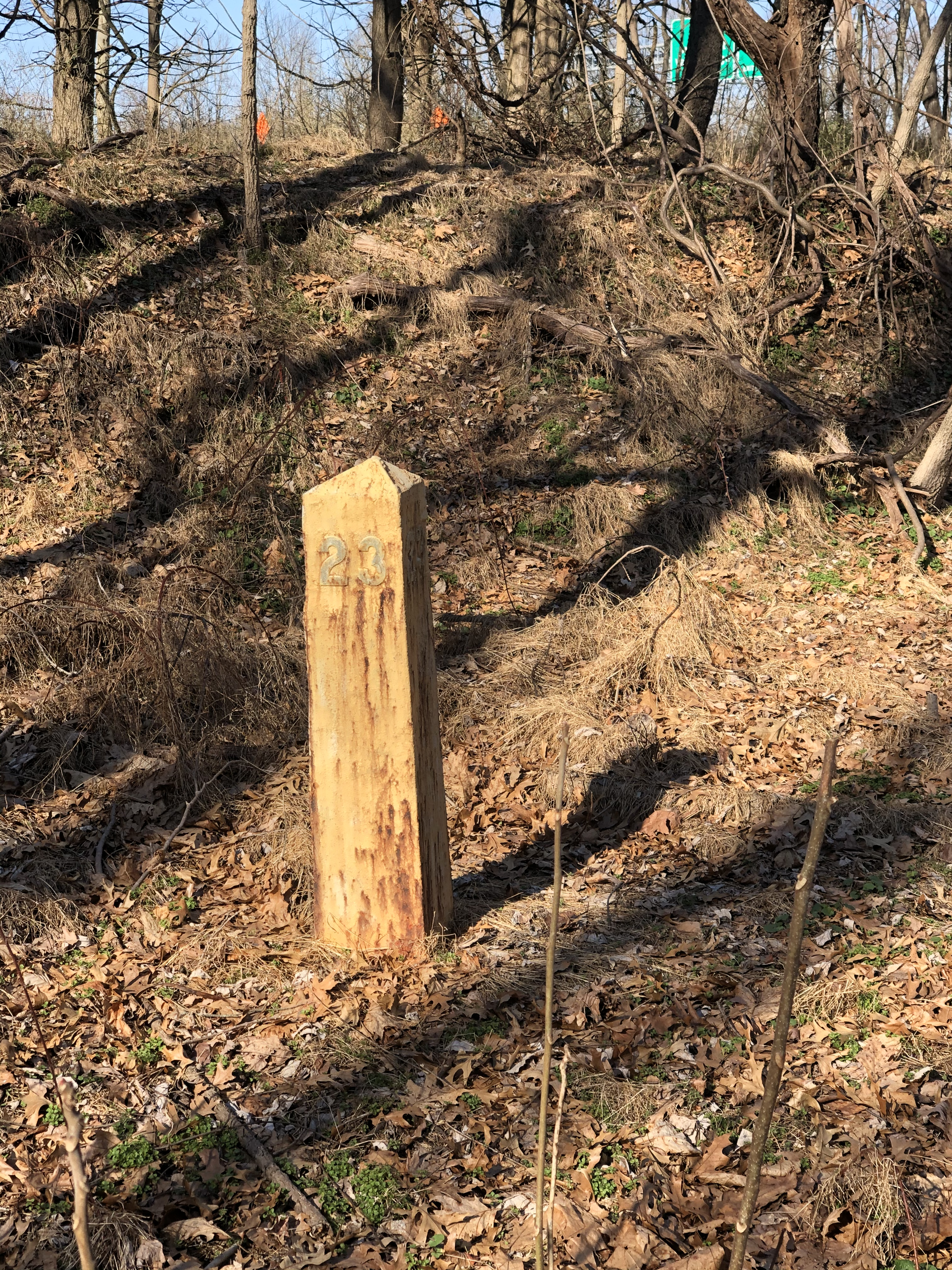 Schuylkill River Trail mile 23 marker